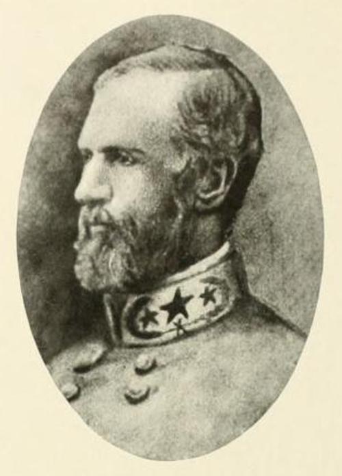 Confederate Major General Jeremy Francis Gilmer